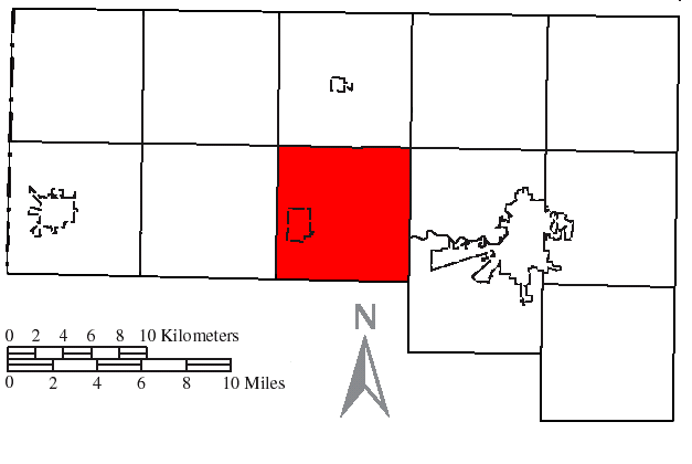 Made by the US Census and modified by myself